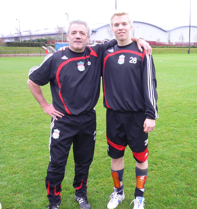 Lauri Dalla Valle at right.